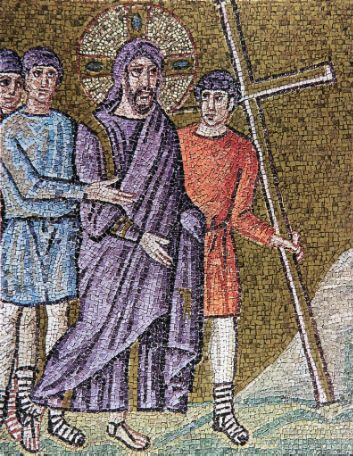 Mosaic in Basilica of Sant'Apollinare Nuovo. Christ led to Calvary